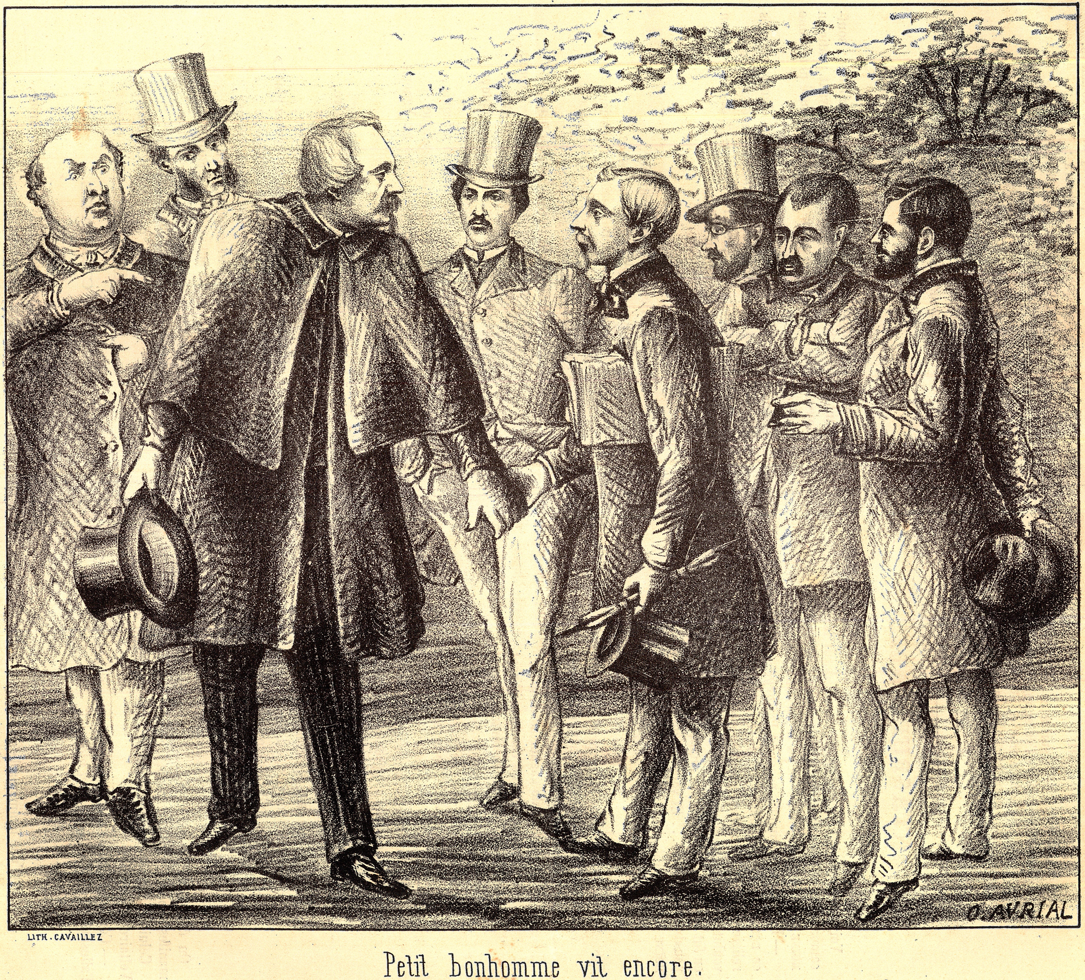 Fortune Henry, director of the weekly Panurge (left with hat in hand) and Oscar Avrial, illustrator of Panurge (right, brushes in hand) after the trial of Carcassonne.